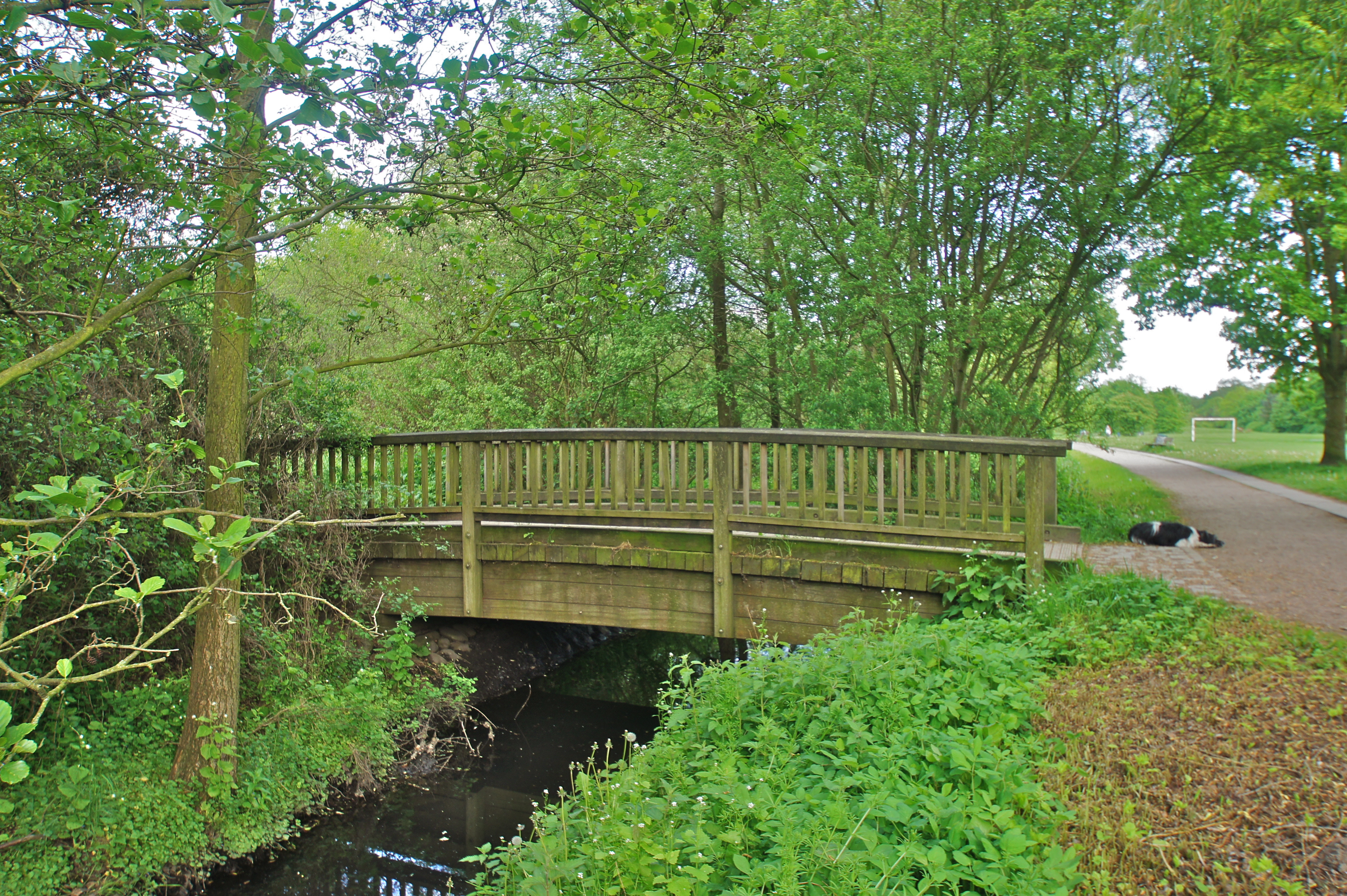 Hamburg (Bramfeld), Germany: First footbridge over the river Wellingsbüttler Grenzgraben at the boundary with SaselWellingsbüttler Grenzgraben